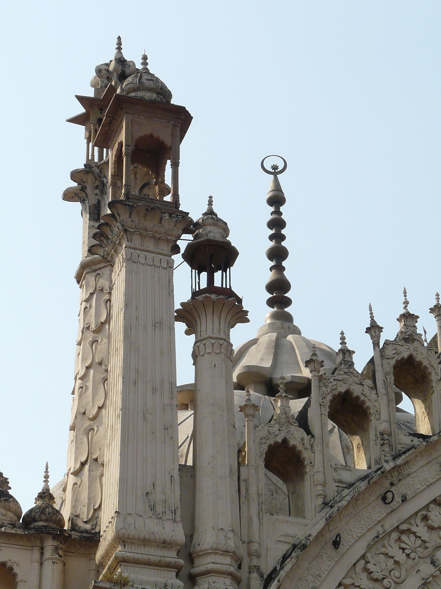 Rooftop details, Jama Masjid Jama Masjid, Lucknow, Uttar Pradesh, India